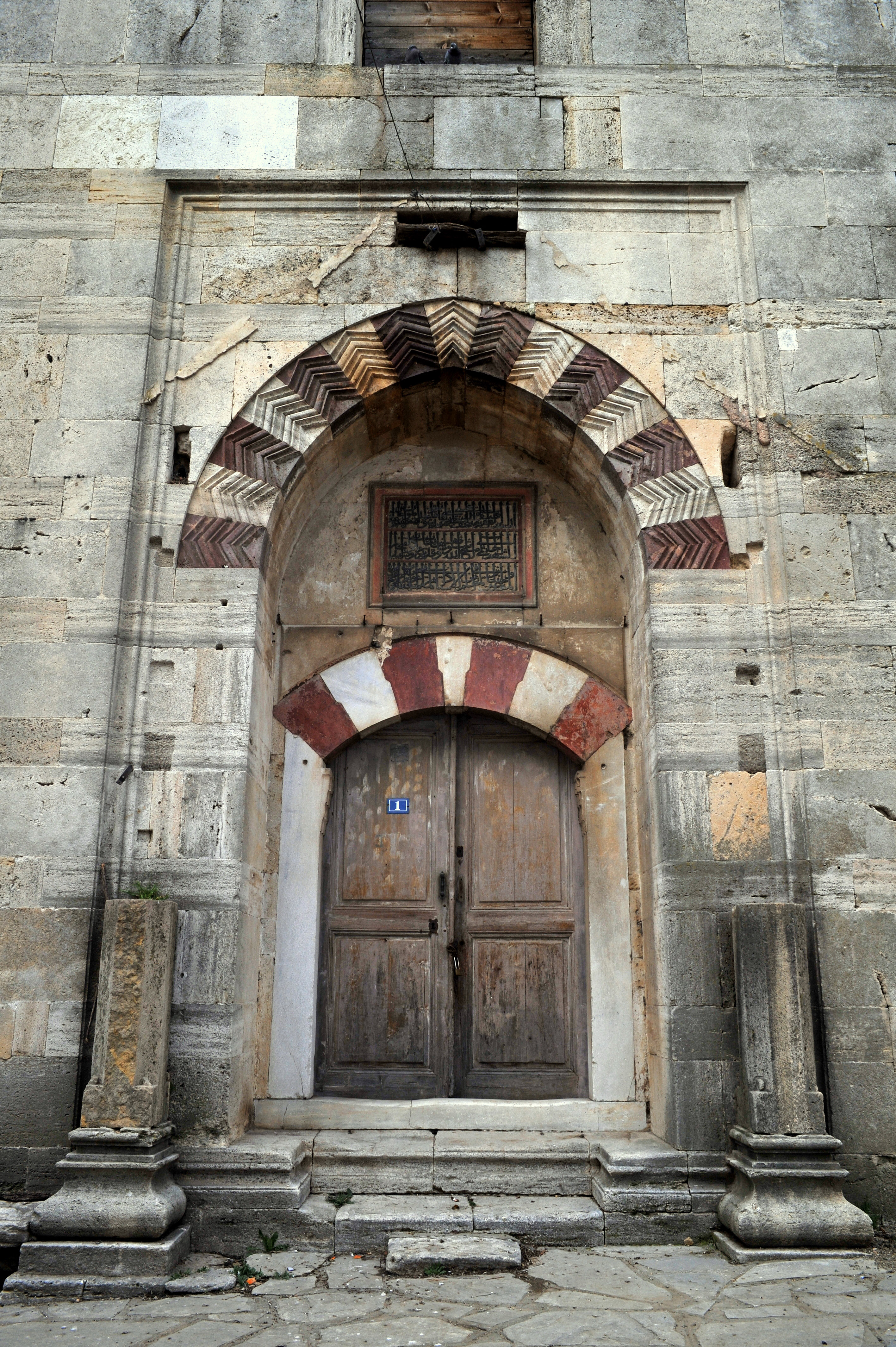 Bayezid (Mehmed I) Mosque, Didymoteicho, Evros, Greece.